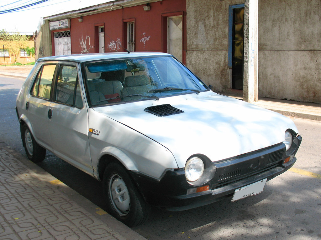 Fiat Ritmo 65 CL 1981